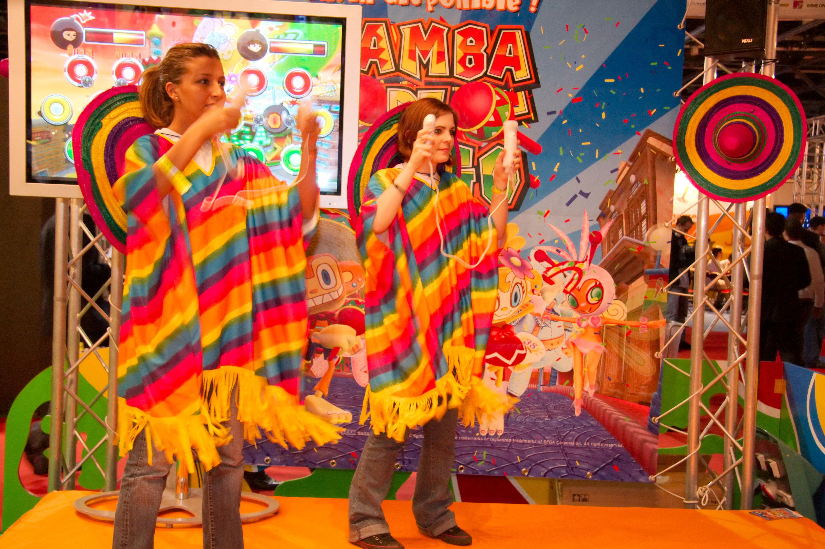 Festival du jeu vidéo 2008 (video game festival) (Paris, France).